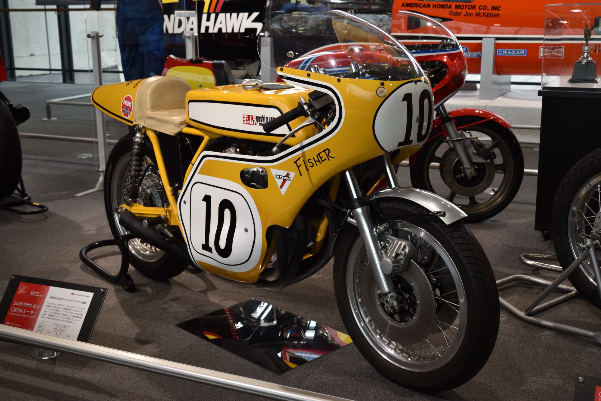 Yoshimura/Krause Honda CB750 Racer (Gary Fisher, 1972 Daytona 200)